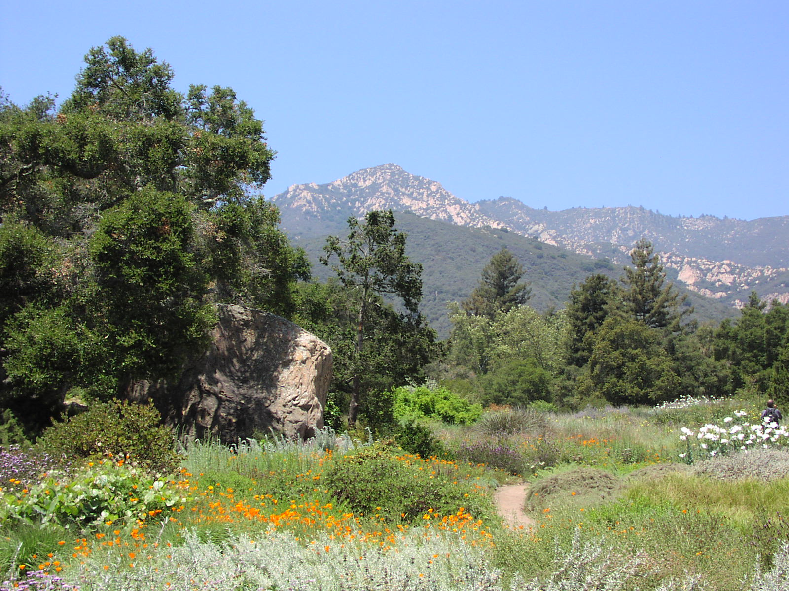 Santa Barbara Botanic Garden — view of historic native meadow, with perennials and the Santa Ynez Mountains backdrop. Peak bloom in the gardens occurs during the Spring season. The botanic garden, exclusive to California native plants, is located in Mission Canyon, Santa Barbara, California.